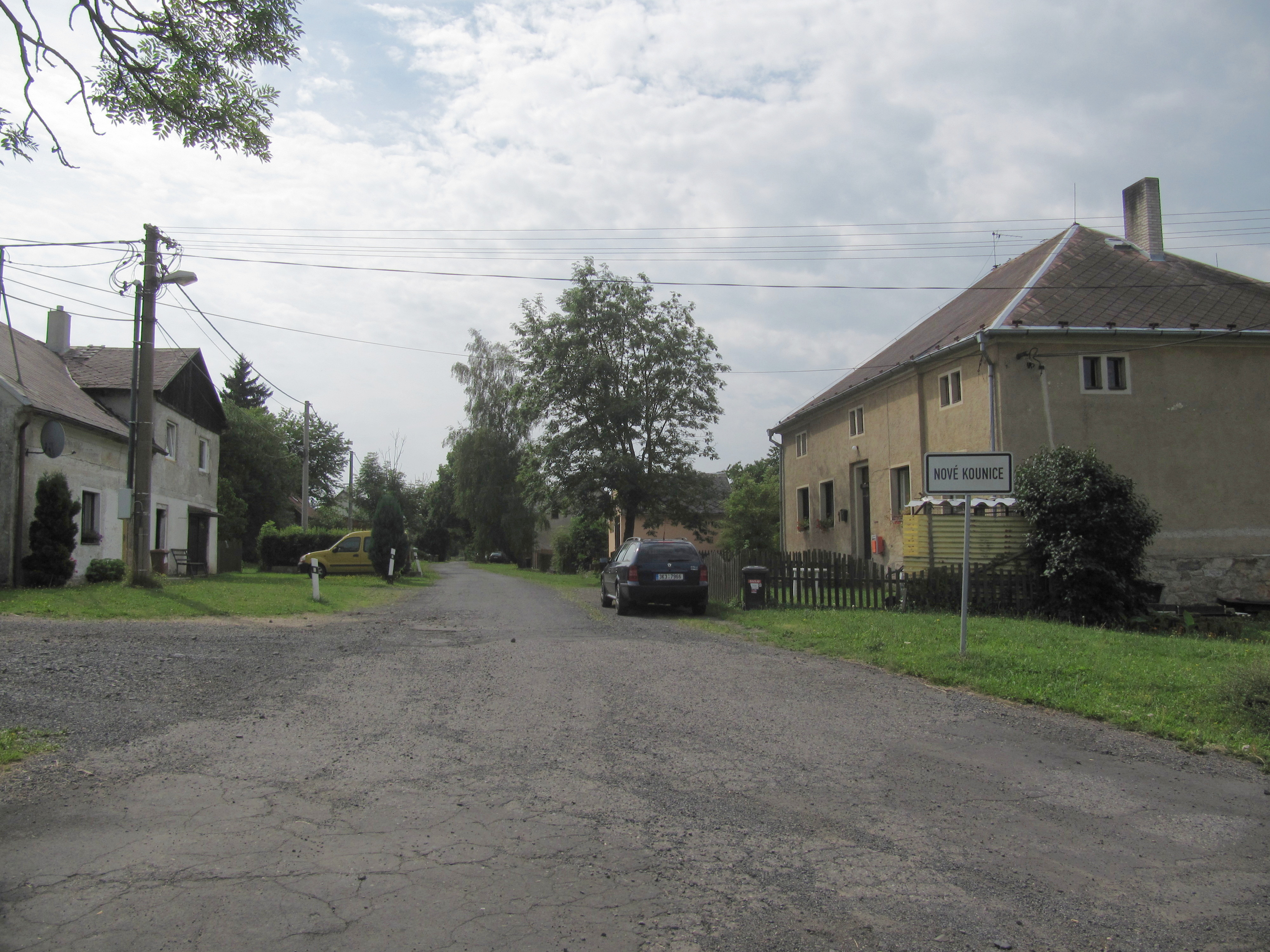 Bochov, Karlovy Vary District, Czech Republic, part Nové Kounice.